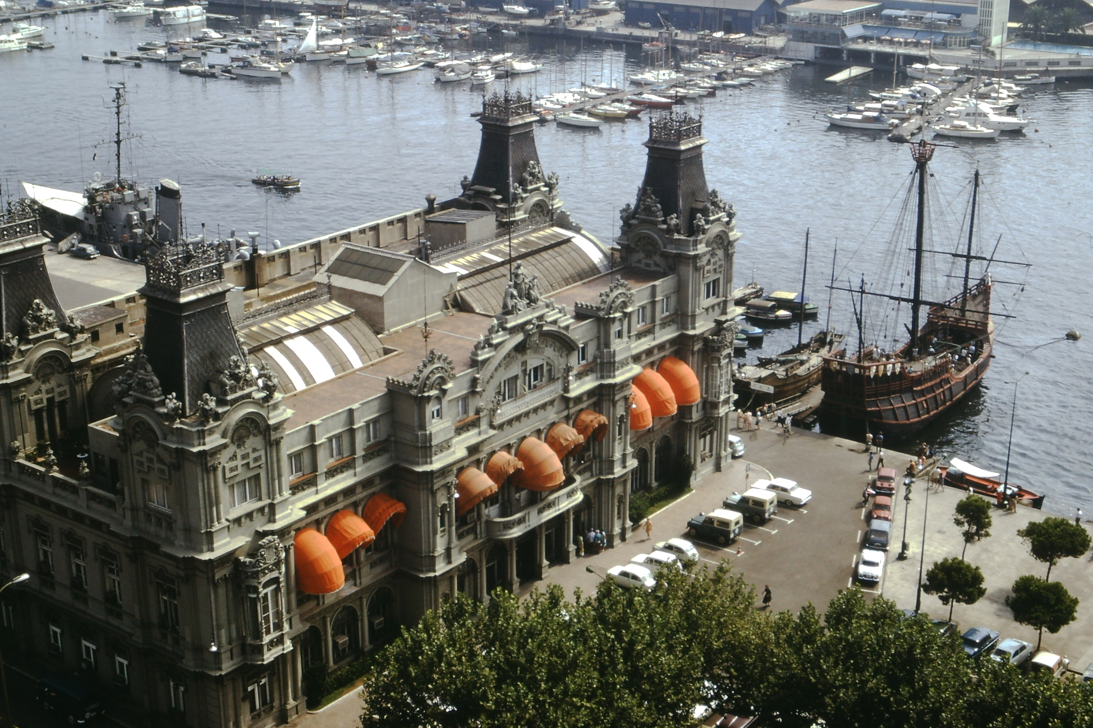 Barcelona, old harbor office with harbor and a replica of Santa María, the ship of Christopher Columbus - 1971